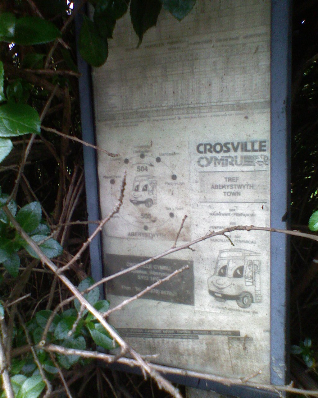 Crossville Cymru sign at bus stop in Aberystwyth